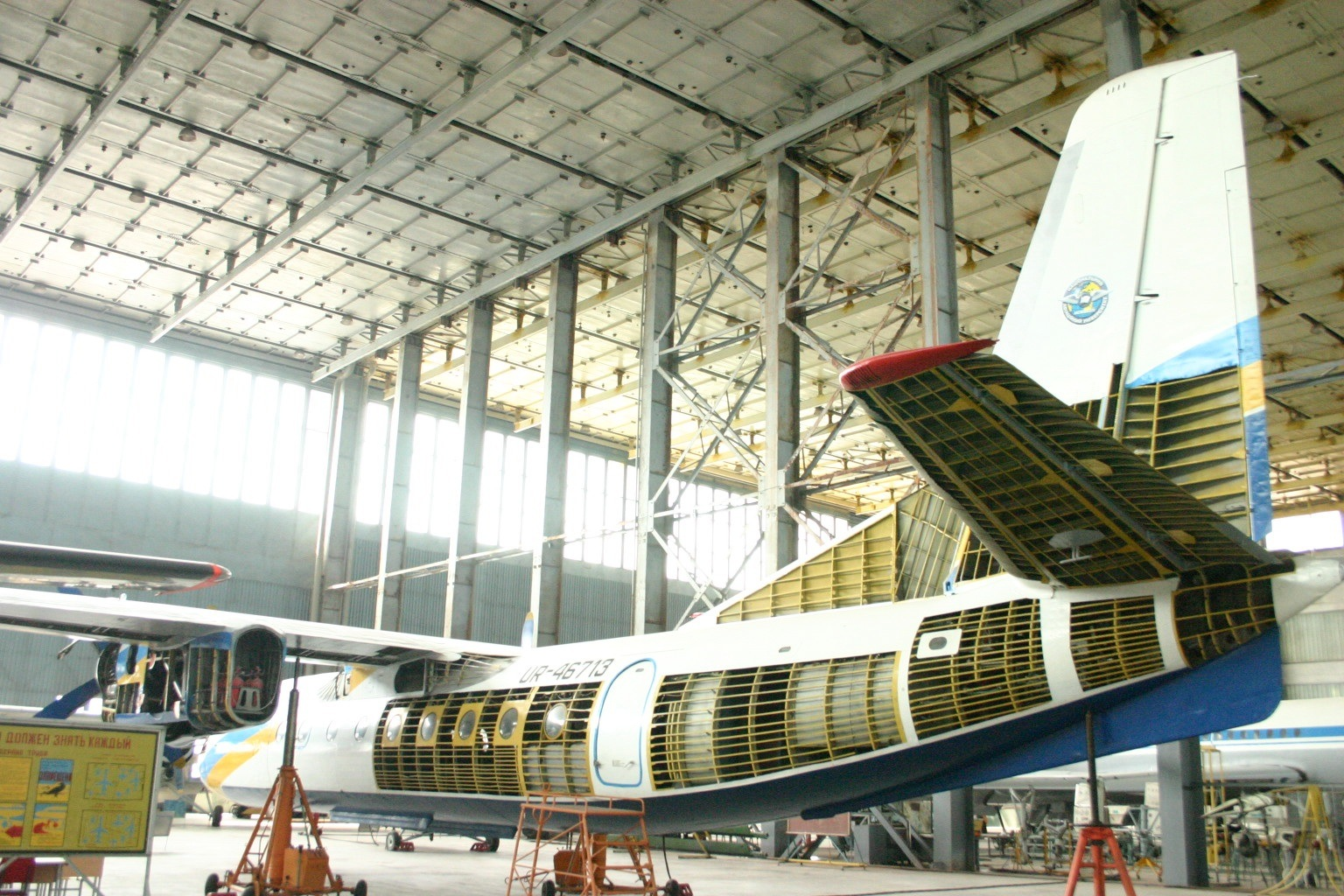 At Kiev Institute Of Aviation